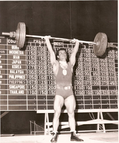 Parviz Jalayer at the 1966 Asian Games